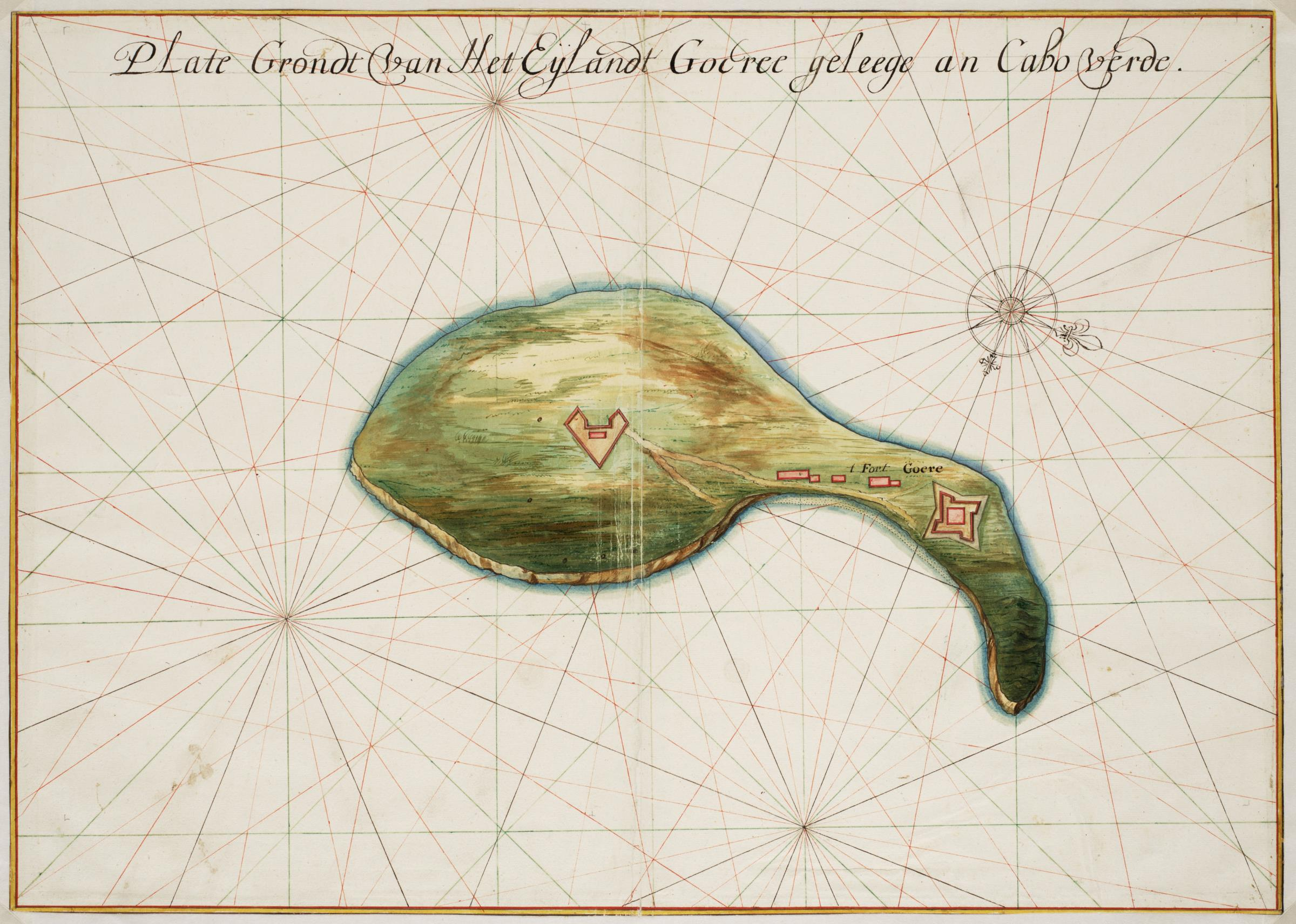 Title in the Leupe catalogue (NA): "Plategrondt van het eijlandt Goeree geleege an Cabo Verde". Map of the island of Goeree. Plate Grondt van Het Eijlandt Goeree geleege an Cabo verde. Notes: the chart forms part of the Vingboons Atlas.